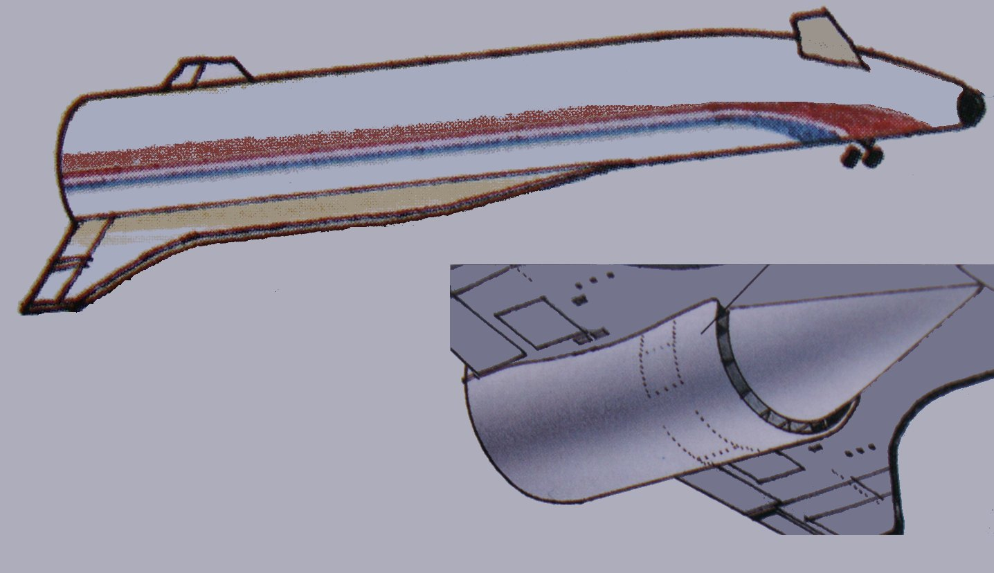 A schematic of HOTOL. HOTOL (or similar jet-propelled aircraft) could be possibly build to delivering packages and personnel over long dictances at a cheap cost. A emissionless external combustion engines such as the one shown at can be used with HOTOL. The cheap transport is possible trough automation, hereby making use of cheap electronics such as done in Bruce Simpson's DIY cruise missile project. This aircraft could thus be useful for development and environmental projects that require the transportation of great amounts of material (eg waste plastics, ...) or require cheap personnel transports. The schematic was based on an image in the book "Lucht en ruimtevaart" by Hugh Johnstone.